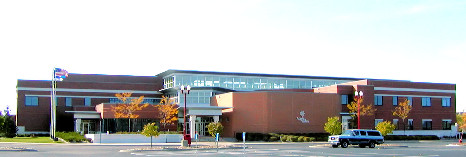 The city hall of Apple Valley, Minnesota